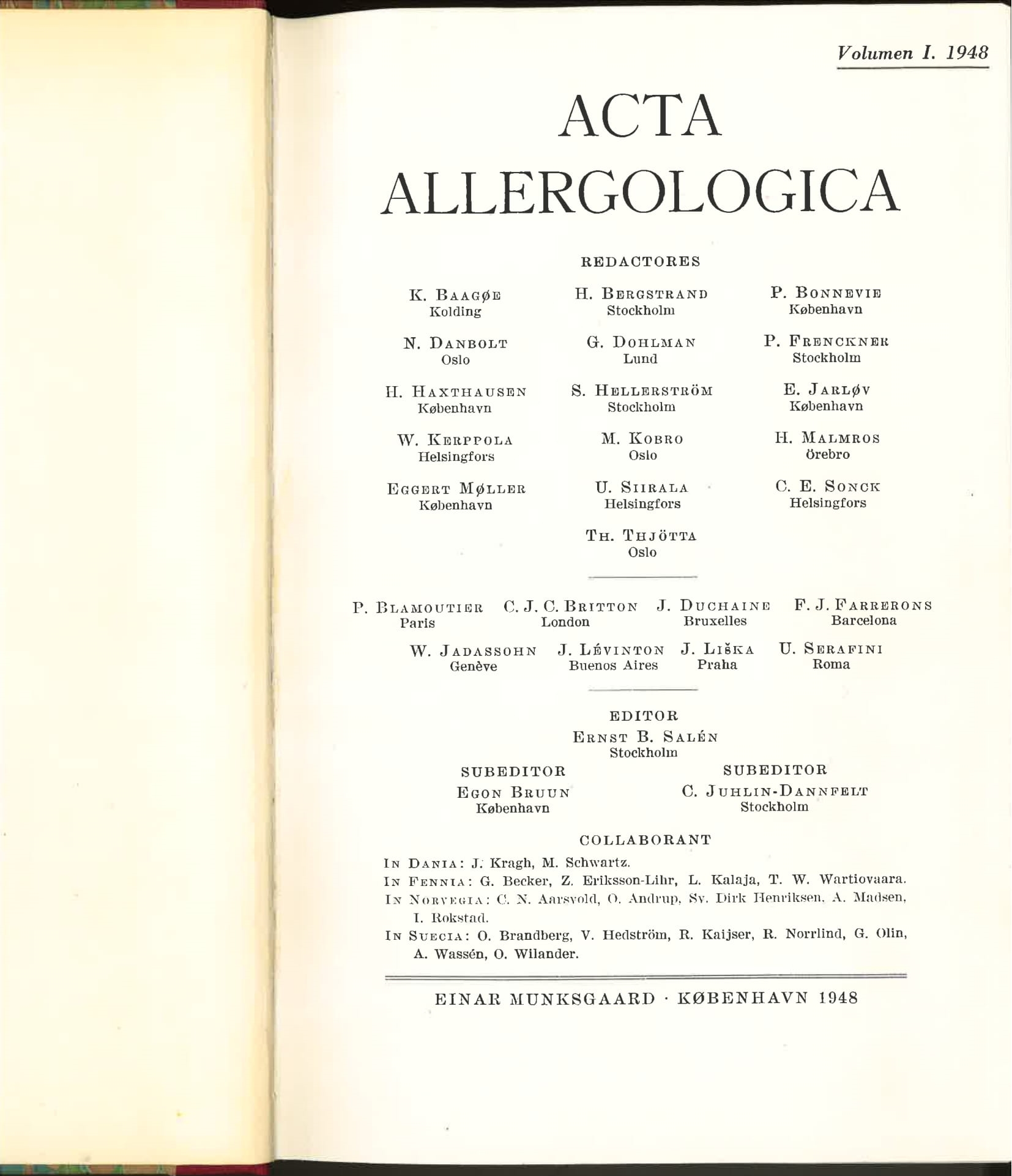 Cover of the first volume of Allergy (known as Acta Allergologica)